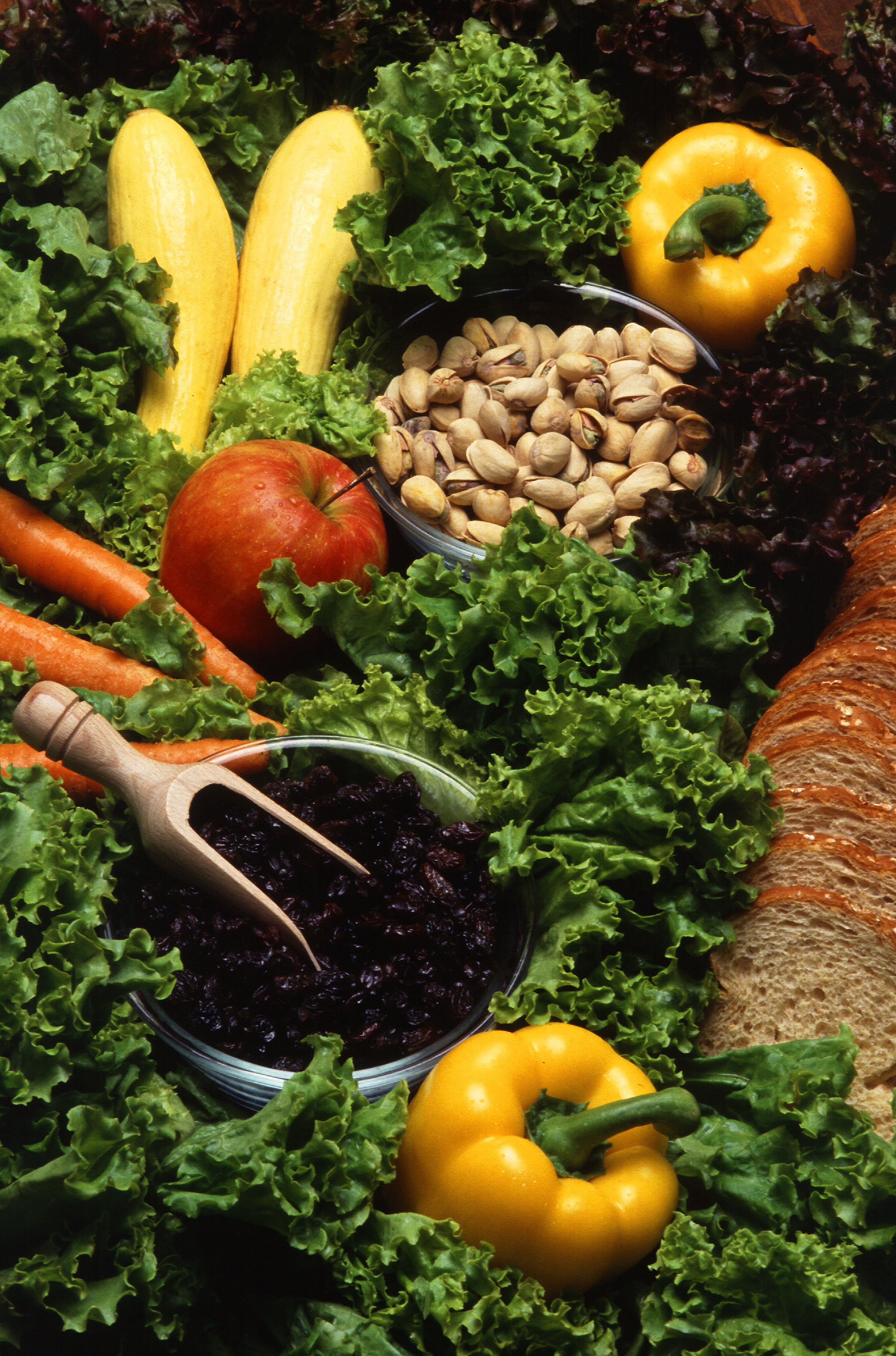 These foods are typical of those eaten by the 12 volunteers during a study of how plant-rich diets affect blood lipids, antioxidant defenses, and colon function.